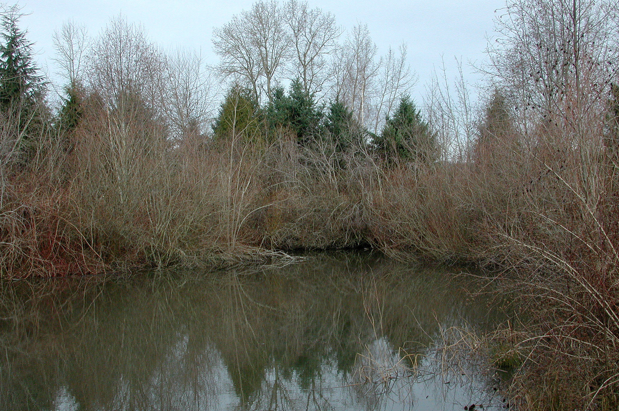 Pond at Blue Lake Regional Park in Fairview, Oregon